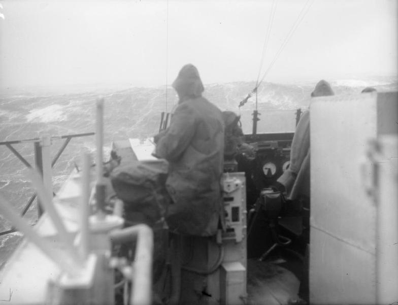 A Force 12 plus gale was blowing when this picture was taken from the bridge as HMS BELLONA plunged through mountainous seas on a convoy to Russia. Note the huge wave in front of the ship. Belladonna sailed in the convoy JW 64 Feb 1945 from The Clyde to The Kola Inlet